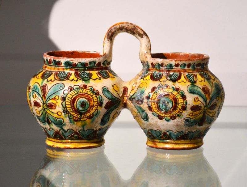 Ceramics in the Historical Museum in Sanok